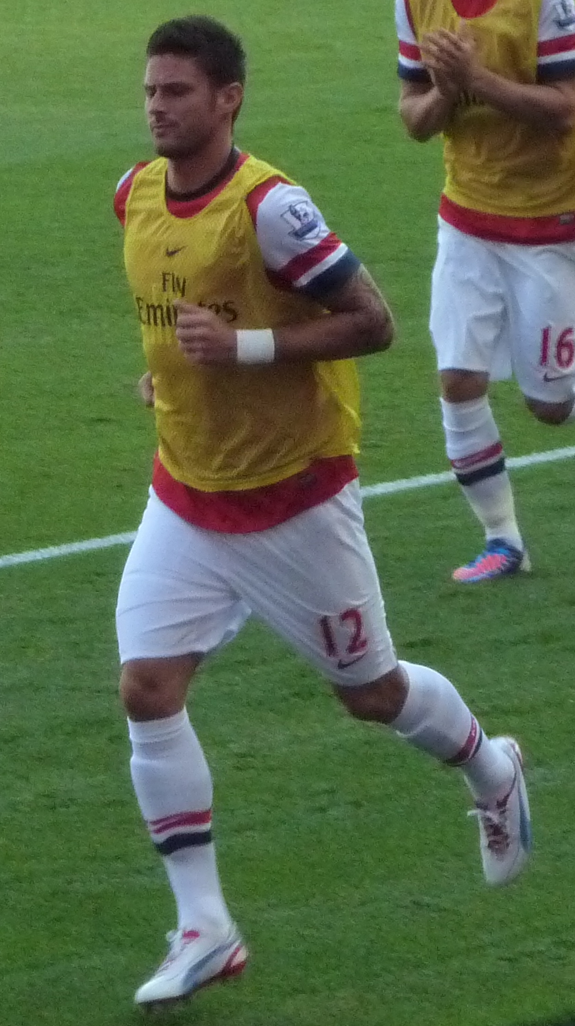 Giroud and Ramsey warming-up during first match of 2012/13 season for Arsenal against Sunderland.